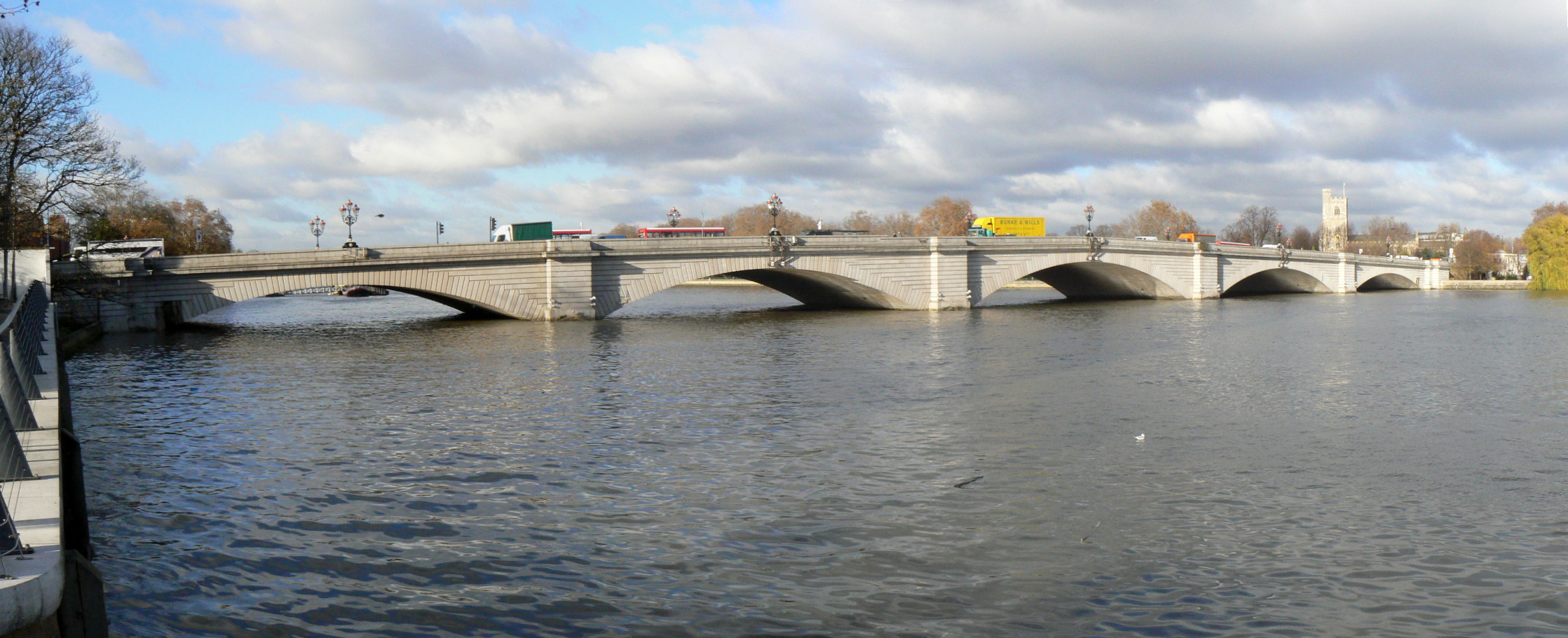 Putney Bridge, River Thames, London. The image is a panorama from 3 photos.